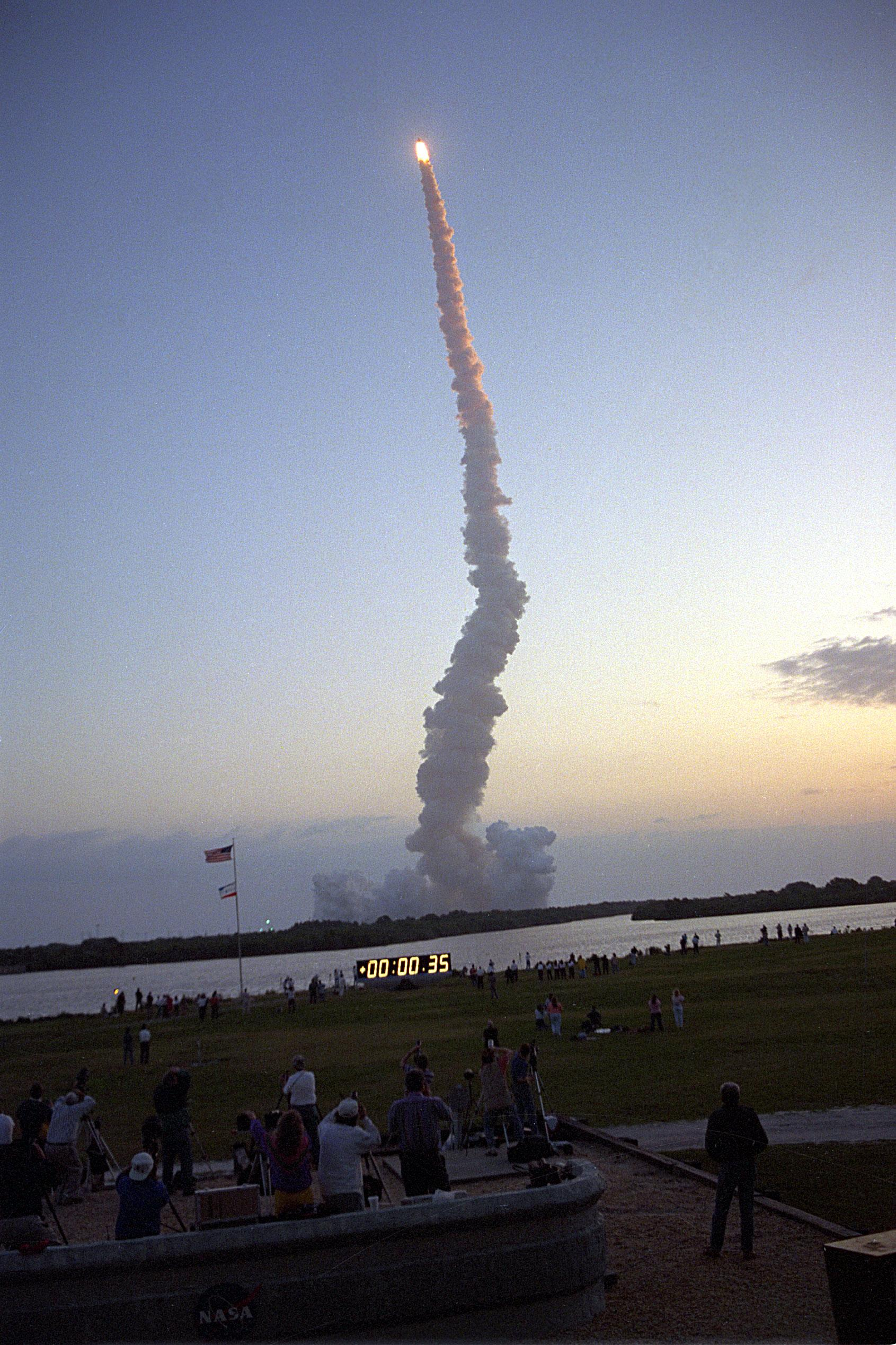 The Space Shuttle Endeavour lifts off from launch Pad 39A on April 9, 1994, at 7:05 a.m. EDT to begin the nine-day STS-59/Space Radar Laboratory mission. The mission countdown clock also can be seen, giving the time into the mission after liftoff. The STS-59 mission is scheduled to end with a landing at KSC's Shuttle Landing Facility.